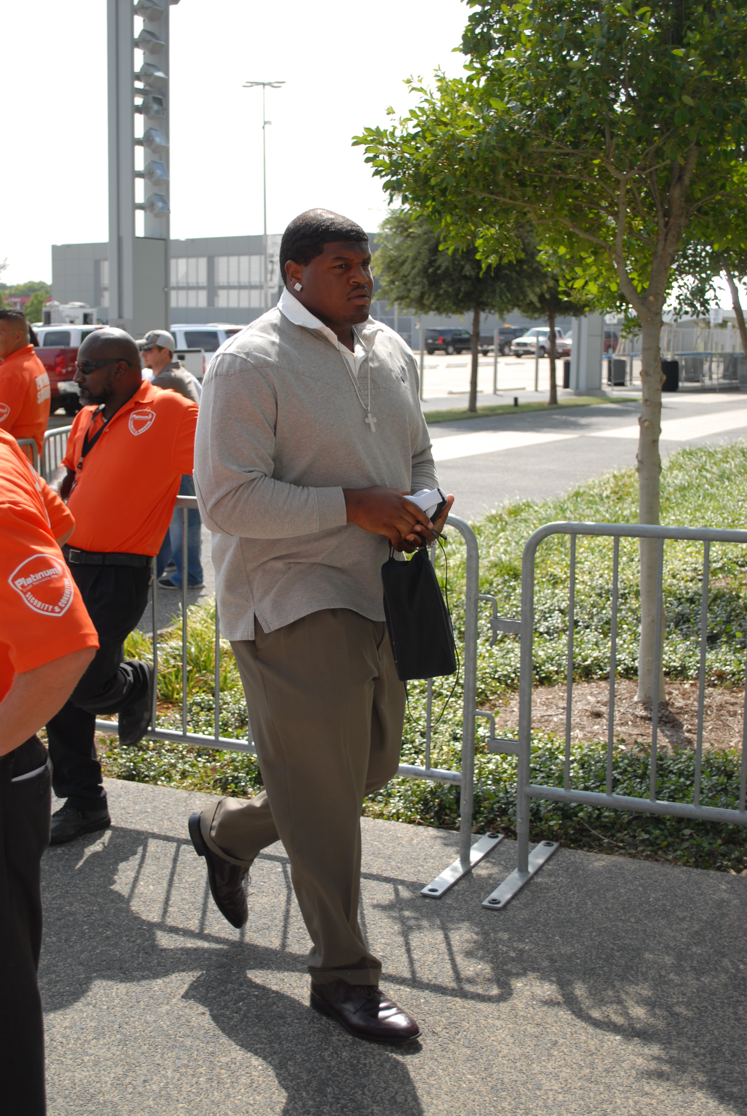 Dallas Cowboys tackle Joshua Brent in August, 2012.